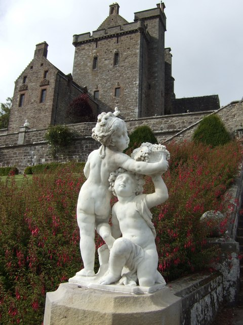 Classical sculpture at Drummond Castle This marble statue is half way down the steps leading to the famous garden.